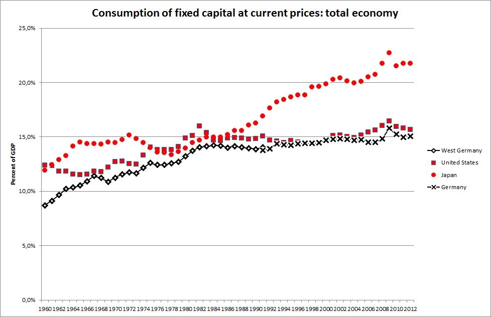 in current Prices: consumption of fixed capital with respect to GDP. Data from ameco data bank of EU commission (via internet)